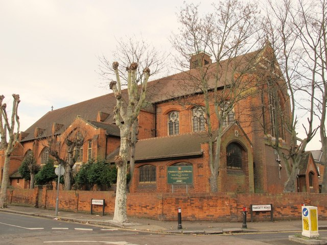 St. Matthew's Church, St. Mary's Road / Fawcett Road, NW10